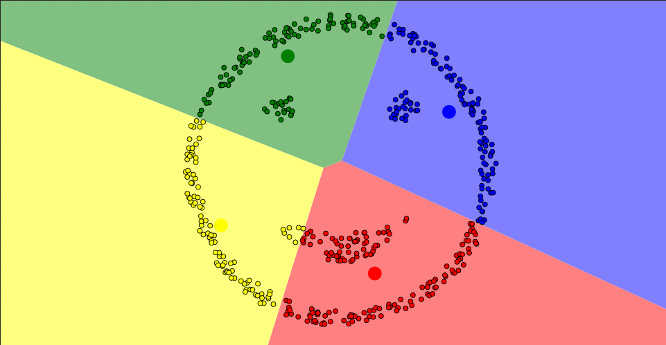 Kmeans nonspherical